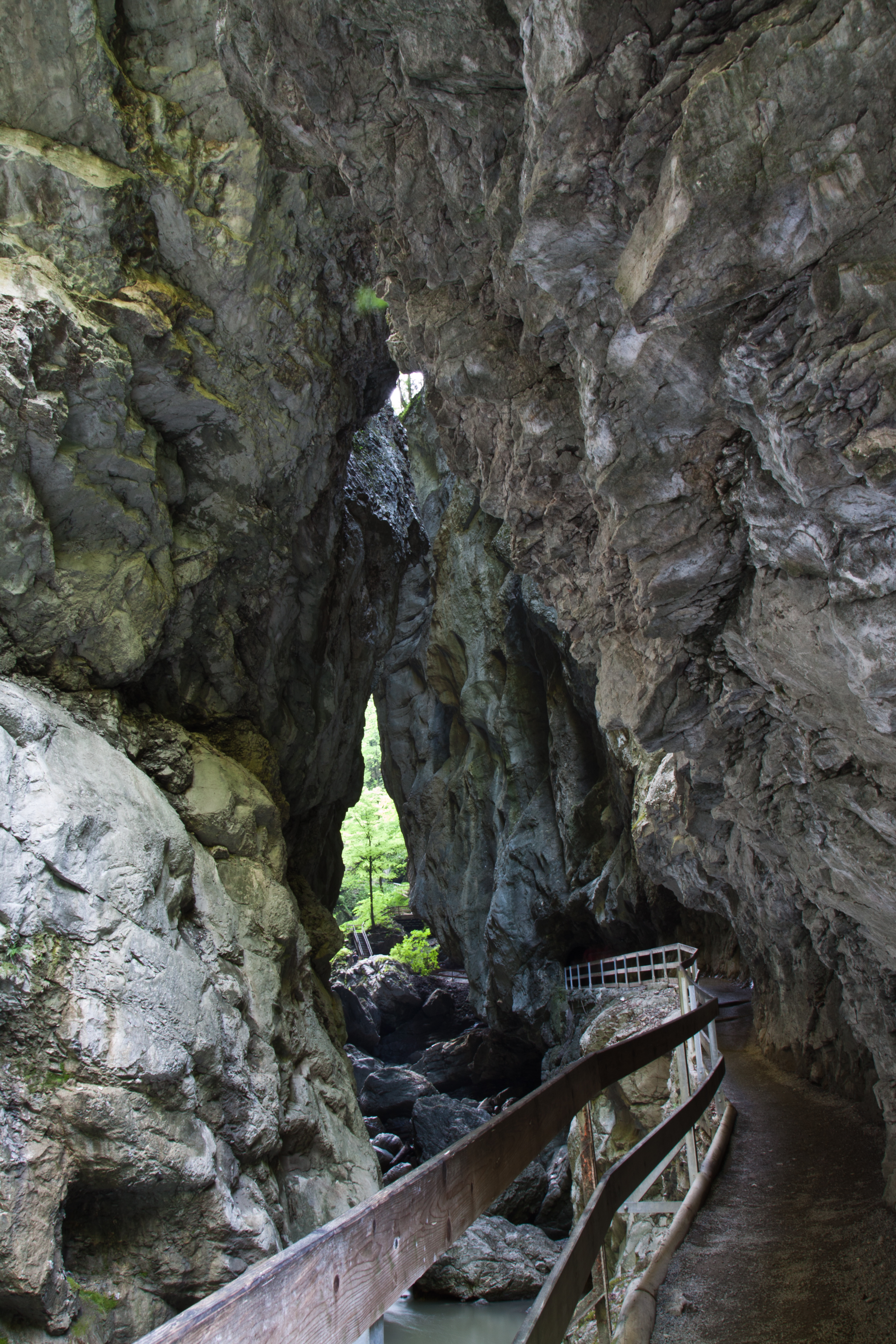 gorge Rappenloch in Dornbirn / Austria